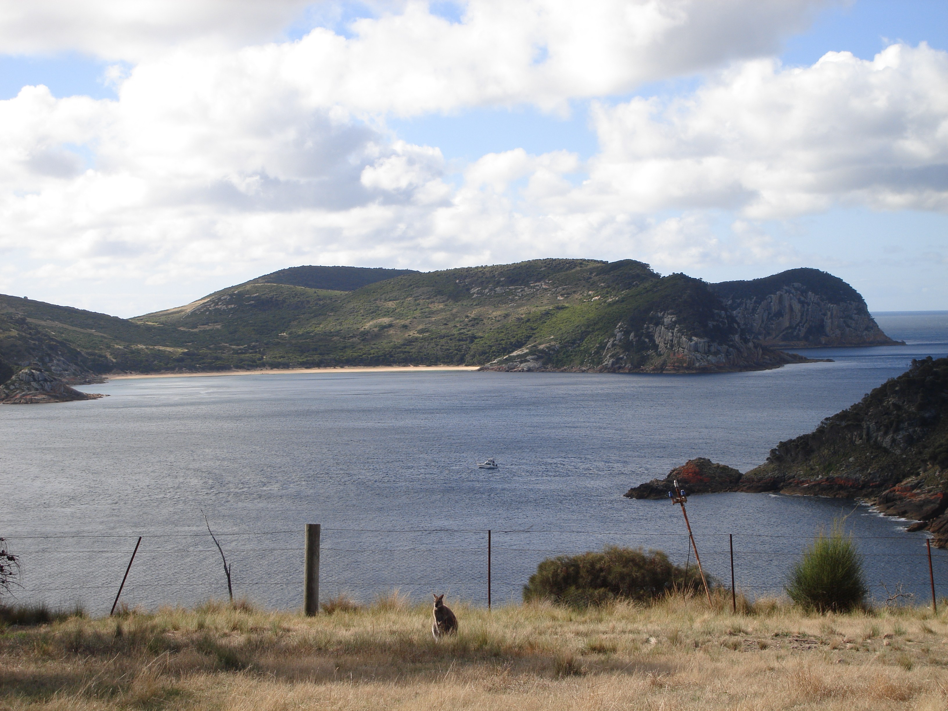 Wallaby, Nautic & Deal Island Landscape